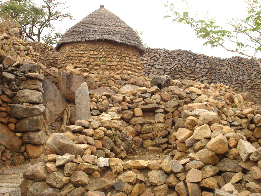 This mind-blowing landscape sits along the Nigerian/Cameroun Border in Adamawa State. The Sukur Cultural Landscape in Madagali local government area of Adamawa state is a city that has been in existence since the 16th century.